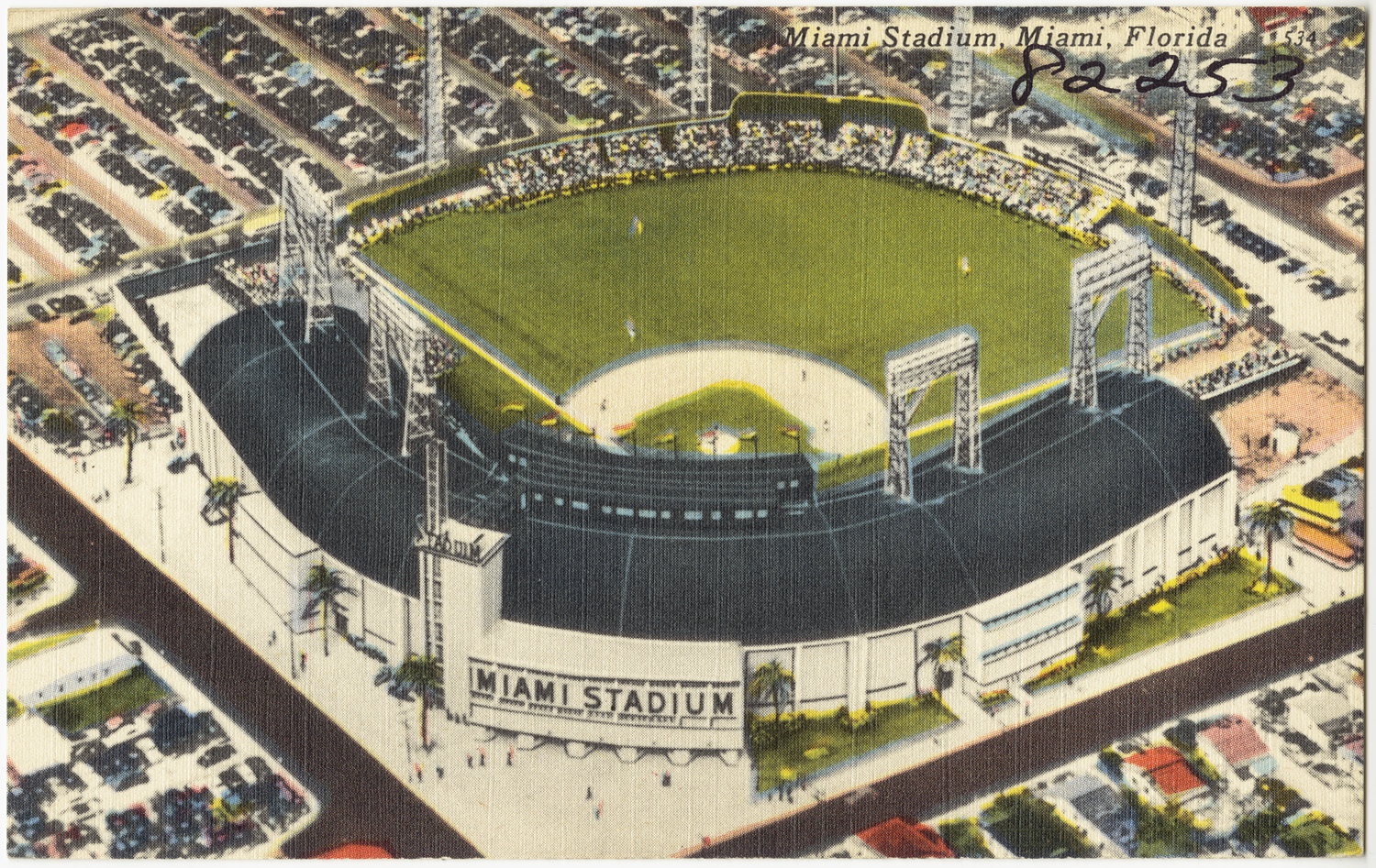 File name: 06_10_008102 Title: Miami Stadium, Miami, Florida Date issued: 1930 - 1945 (approximate) Physical description: 1 print (postcard) : linen texture, color ; 3 1/2 x 5 1/2 in. Genre: Postcards Subject: Stadiums Notes: Title from item. Collection: The Tichnor Brothers Collection Location: Boston Public Library, Print Department Rights: No known restrictions